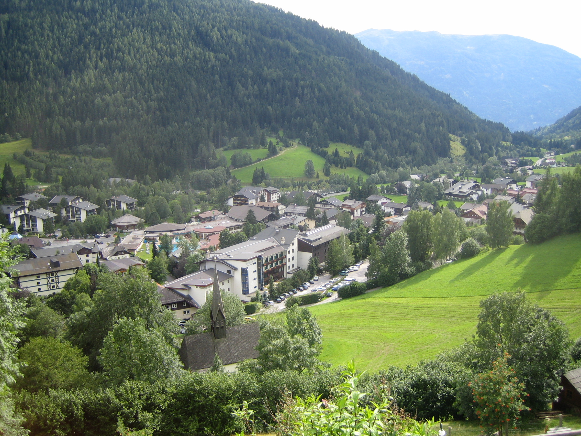 View on Bad Kleinkirchheim, Carinthia, Austria